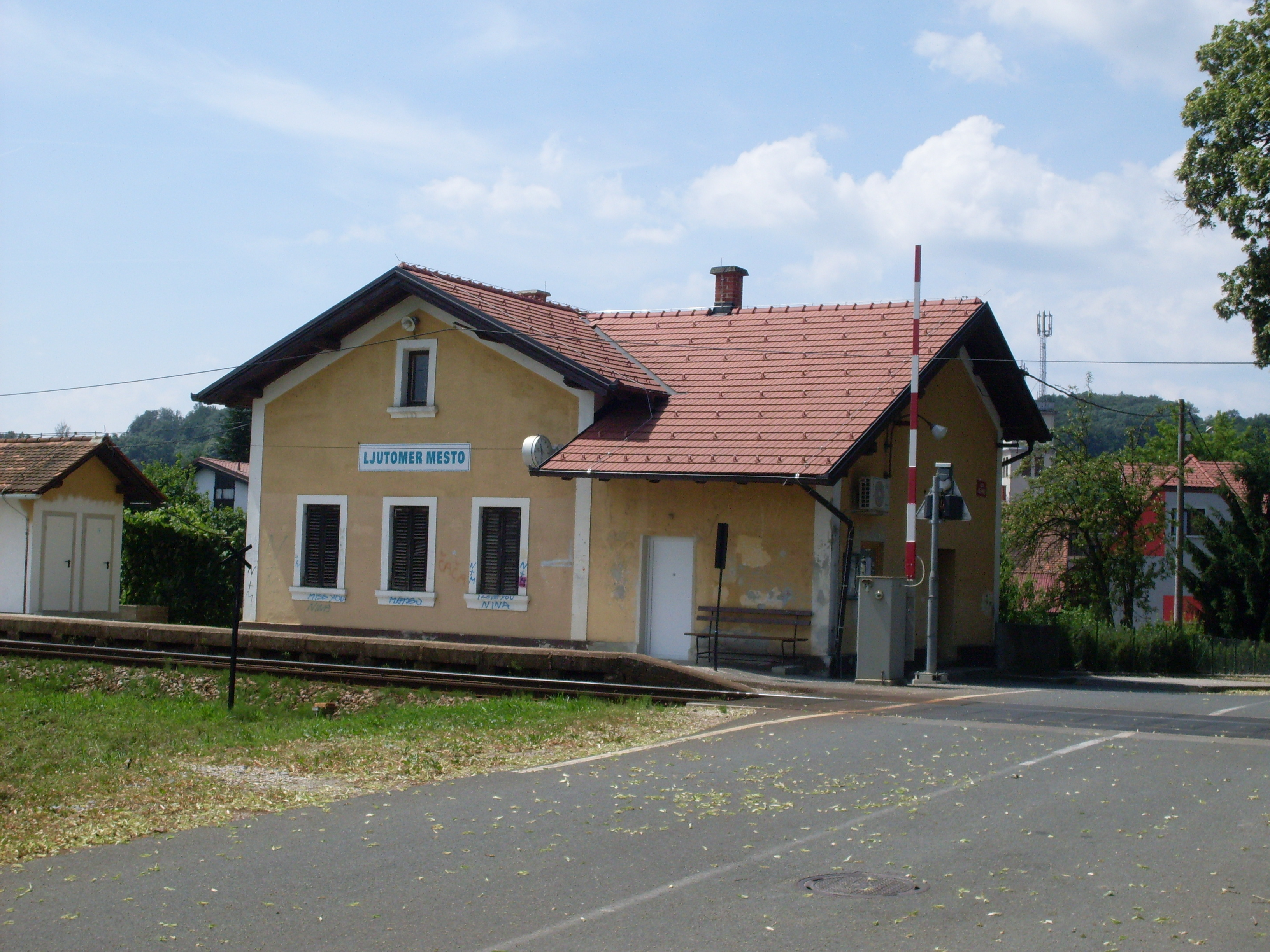 Rail halt Ljutomer mesto in Ljutomer, Slovenia